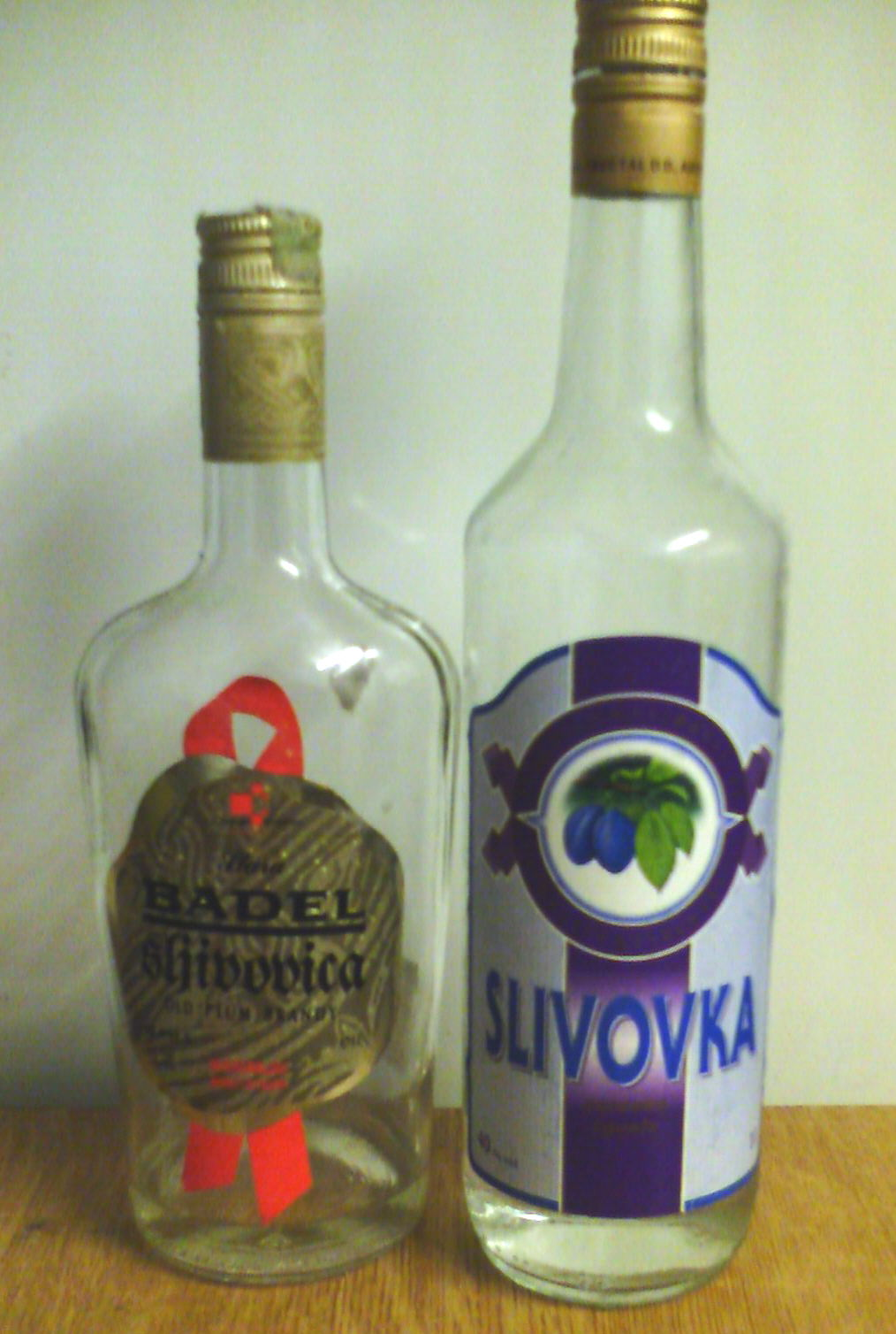 Croatian Sljivovica and Slovenian Slivovka, two names for the same drink. Photo by Asterion talk to me